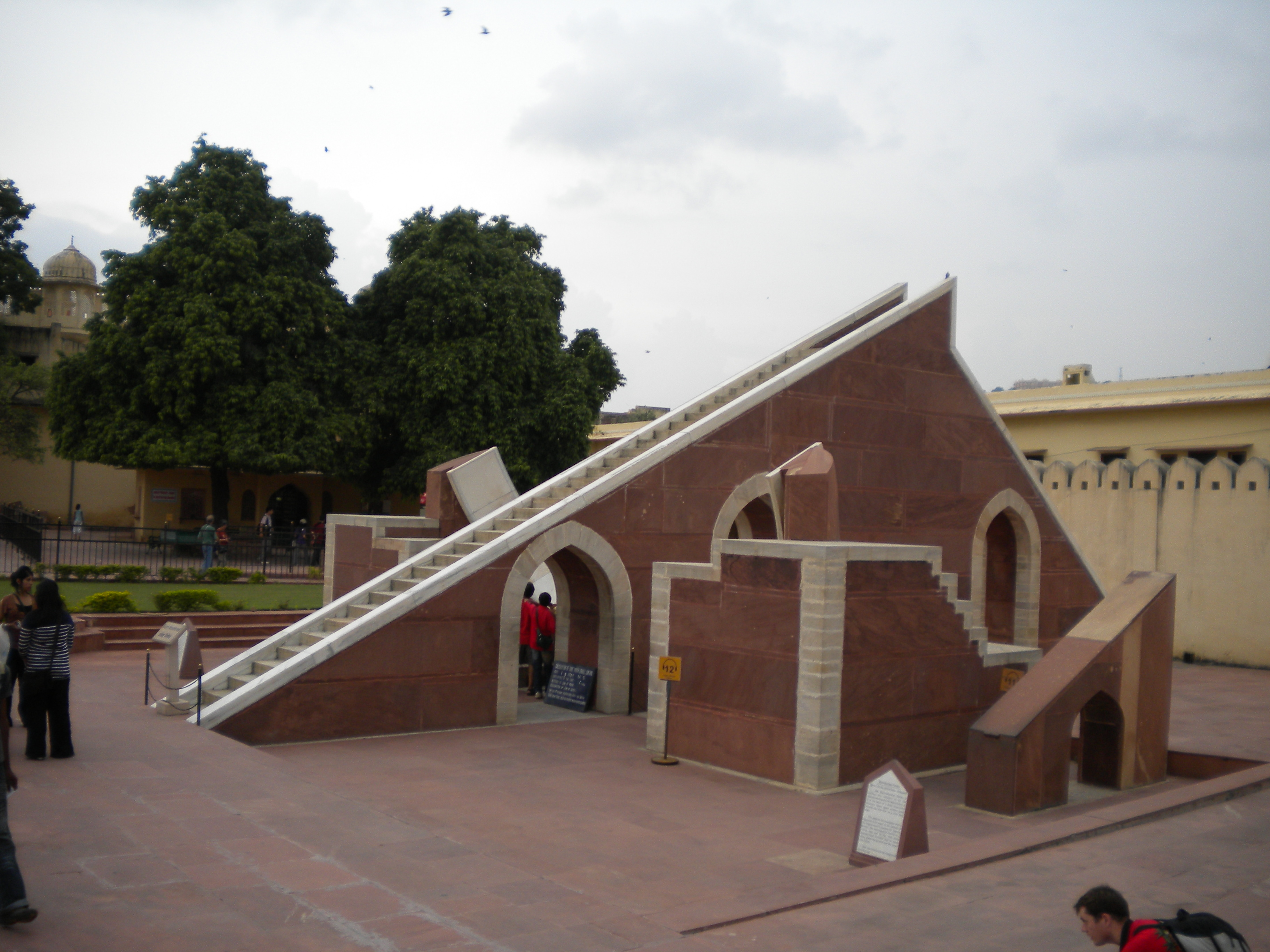 Laghu Samrat Yantra (Small Sundial) at Jantar Mantar, Jaipur. More information